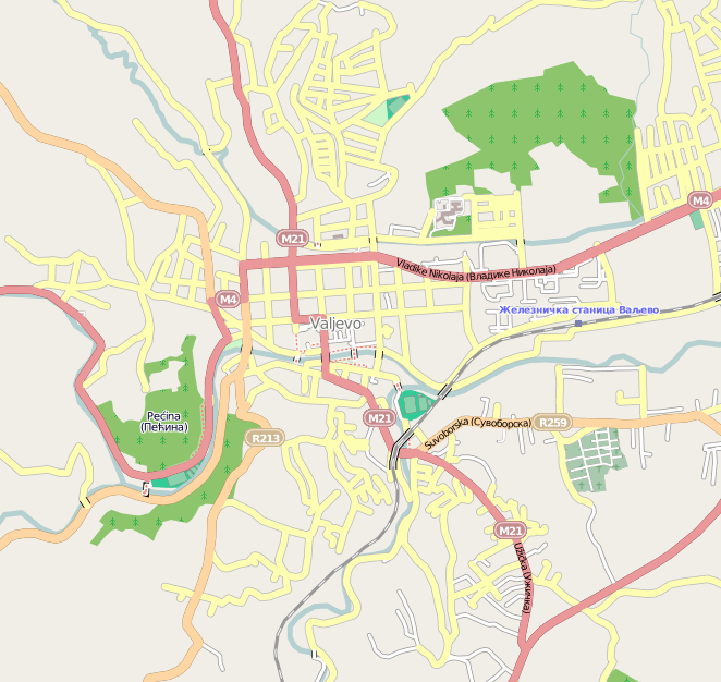 This map may be incomplete, and may contain errors. Don't rely solely on it for navigation.